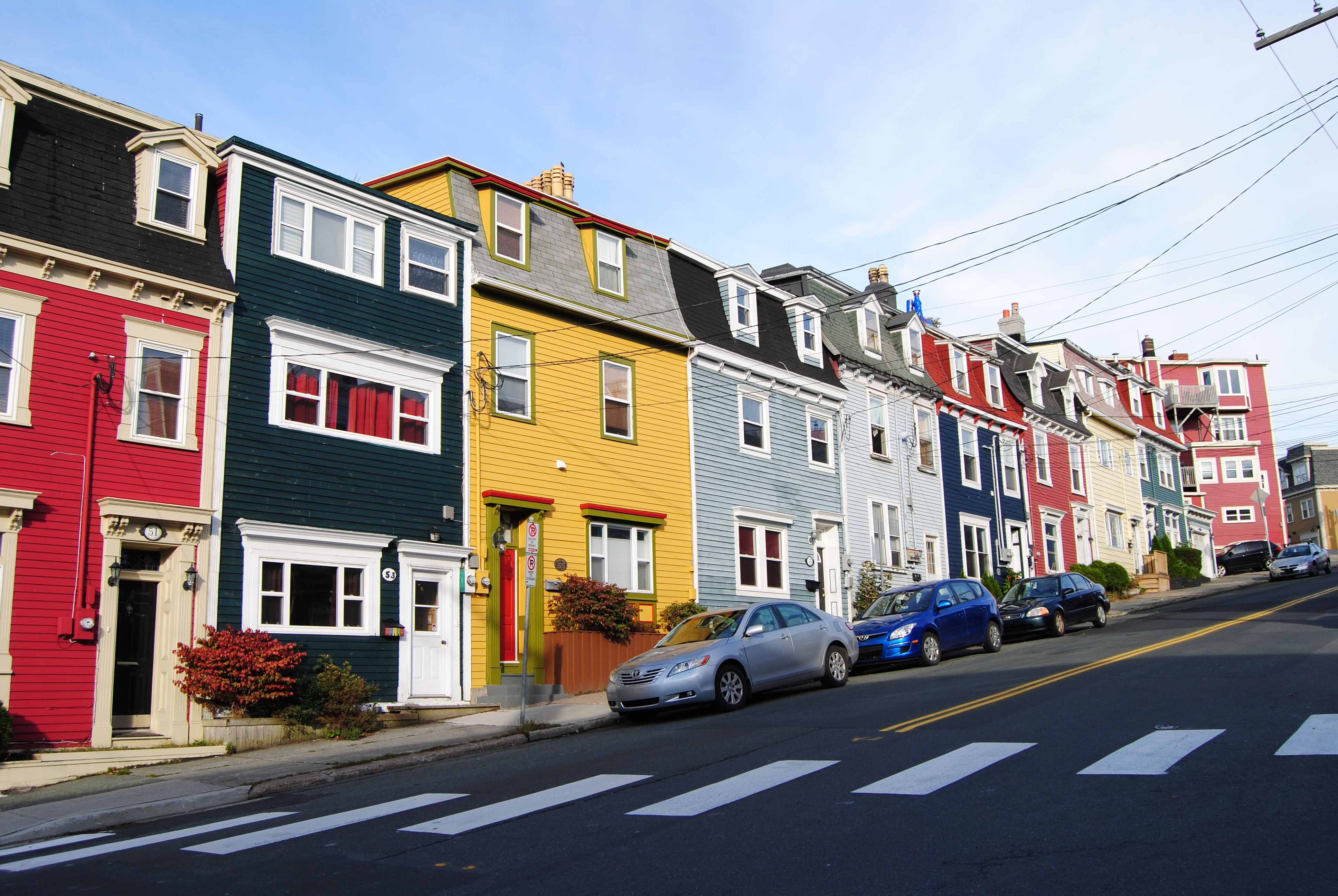 Rowhouses in St. John's, Newfoundland, Canada.